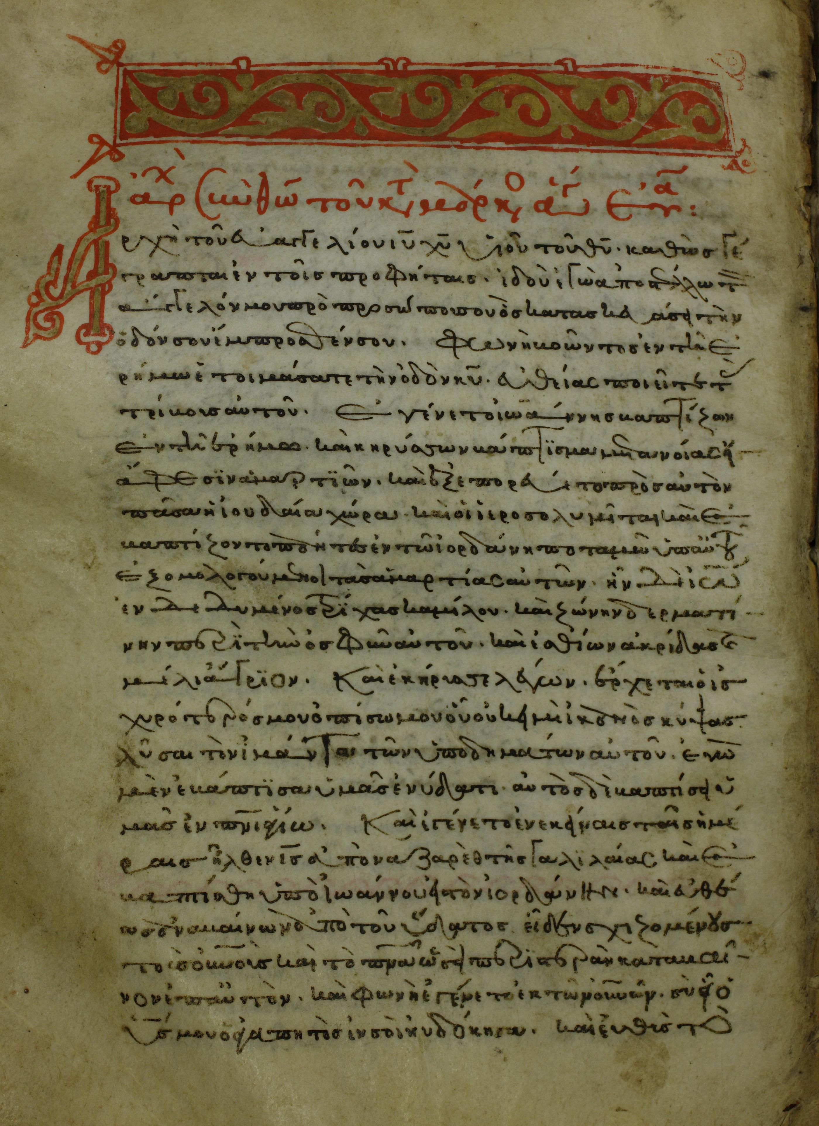 folio 41 verso, with the first page of the Gospel of Mark